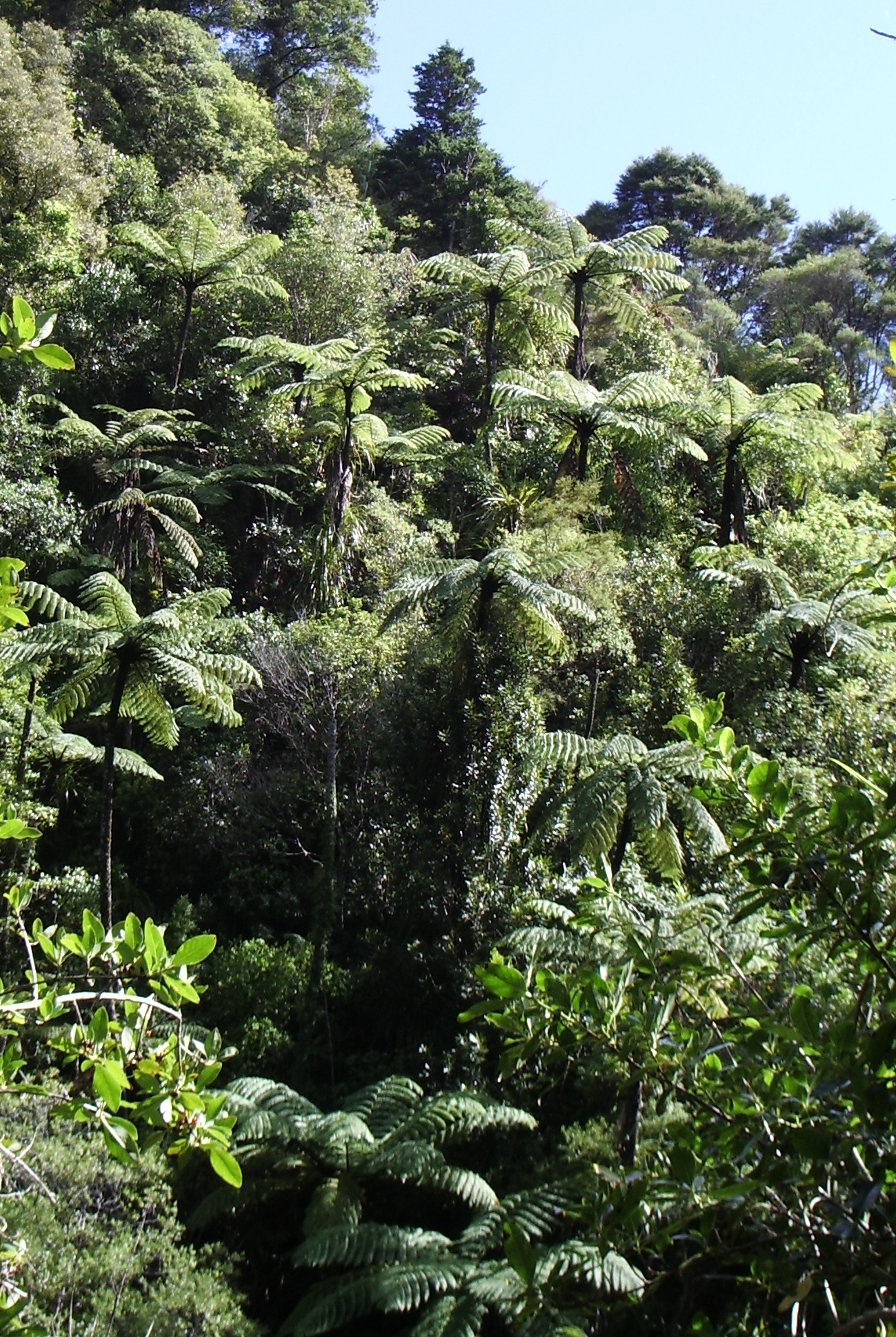 Group of Black Tree Fern (Cyathea medullaris) Location: Waitakere Ranges